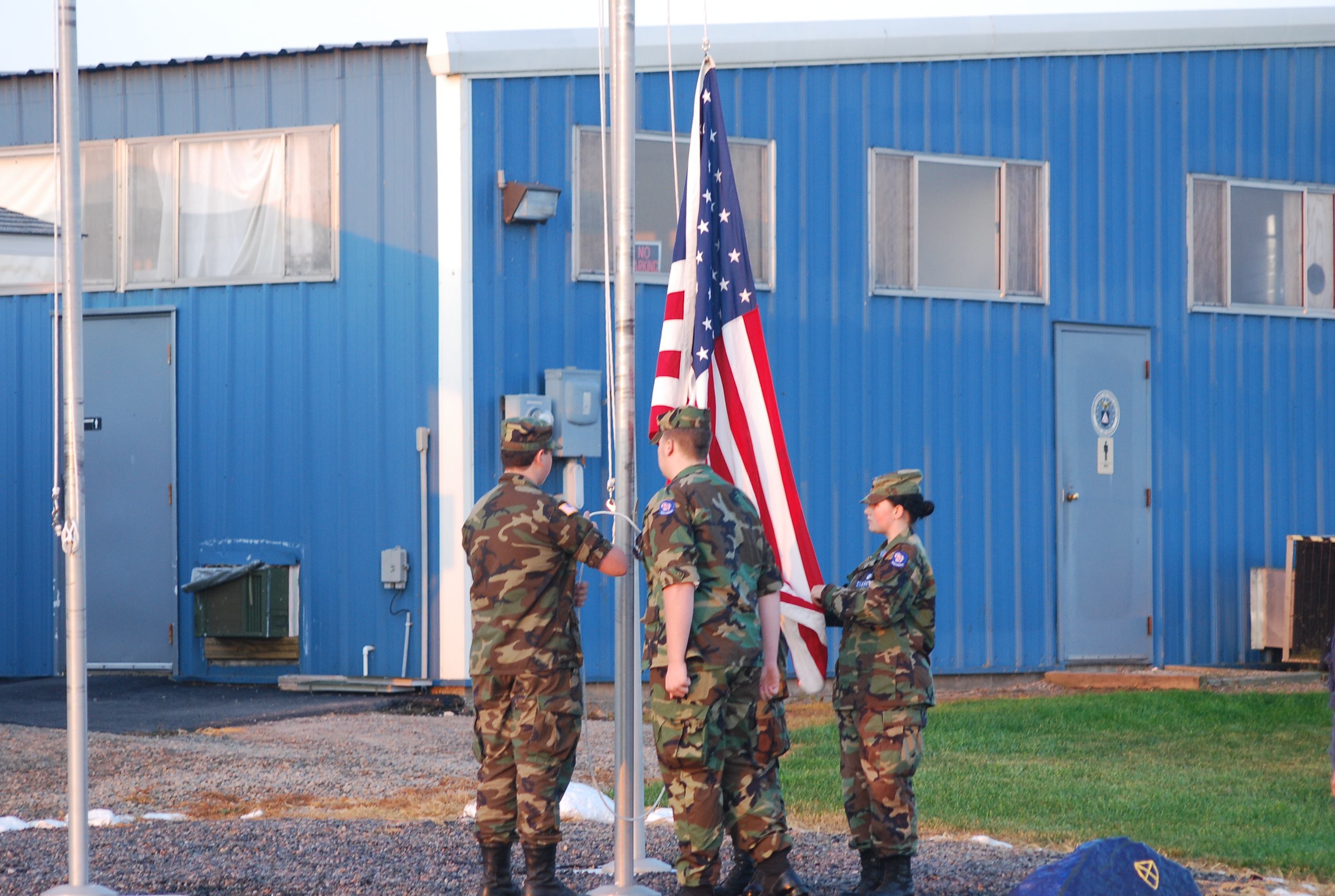 Civil Air Patrol cadets raising the flag at Wittman Regional Airport, Wisconsin